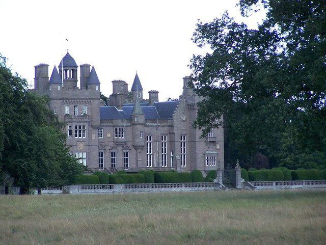 Kinnaird Castle. Welcome to Kinnaird Castle, Brechin, the home of the Earl and Countess of Southesk. The castle has been in the family for over 600 years and lies amidst 1300 acres of magnificent walled parkland nestled between the unspoiled Angus coastline and the gently rolling glens. Most of the second floor of the castle has been transformed into two luxuriously appointed holiday apartments, which can be enjoyed in every season. Opportunities for sightseeing and golf abound in this largely undiscovered and sunny county. Many guests never want to leave the estate itself, embarking on miles of varied walks through open countryside and woodlands dotted with follies, watching rare natural species and enjoying the tremendous fishing and shooting. We hope that you will want to come and find out for yourself.